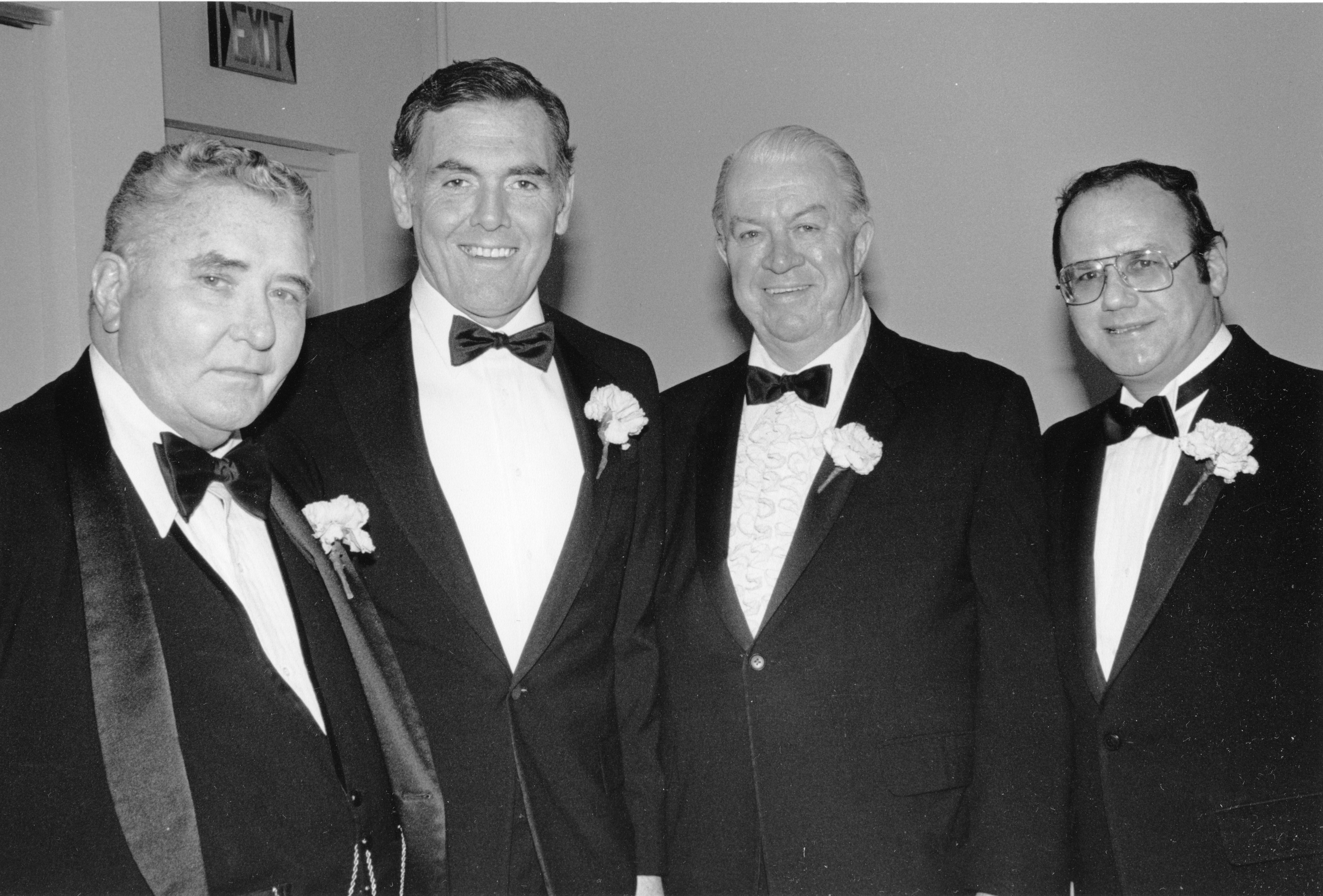 Title: Hon. Joseph F. Feeney, Mayor Raymond L. Flynn, Councilor Albert L. "Dapper" O'Neil, Councilor James M. Kelly Creator: Mayor's Office - City Photographer Date: circa 1984-1987 Source: Mayor Raymond L. Flynn records, Collection #0246.001 File name: RF_0622 Rights: Copyright City of Boston Citation: Mayor Raymond L. Flynn records, Collection #0246.001, City of Boston Archives, Boston